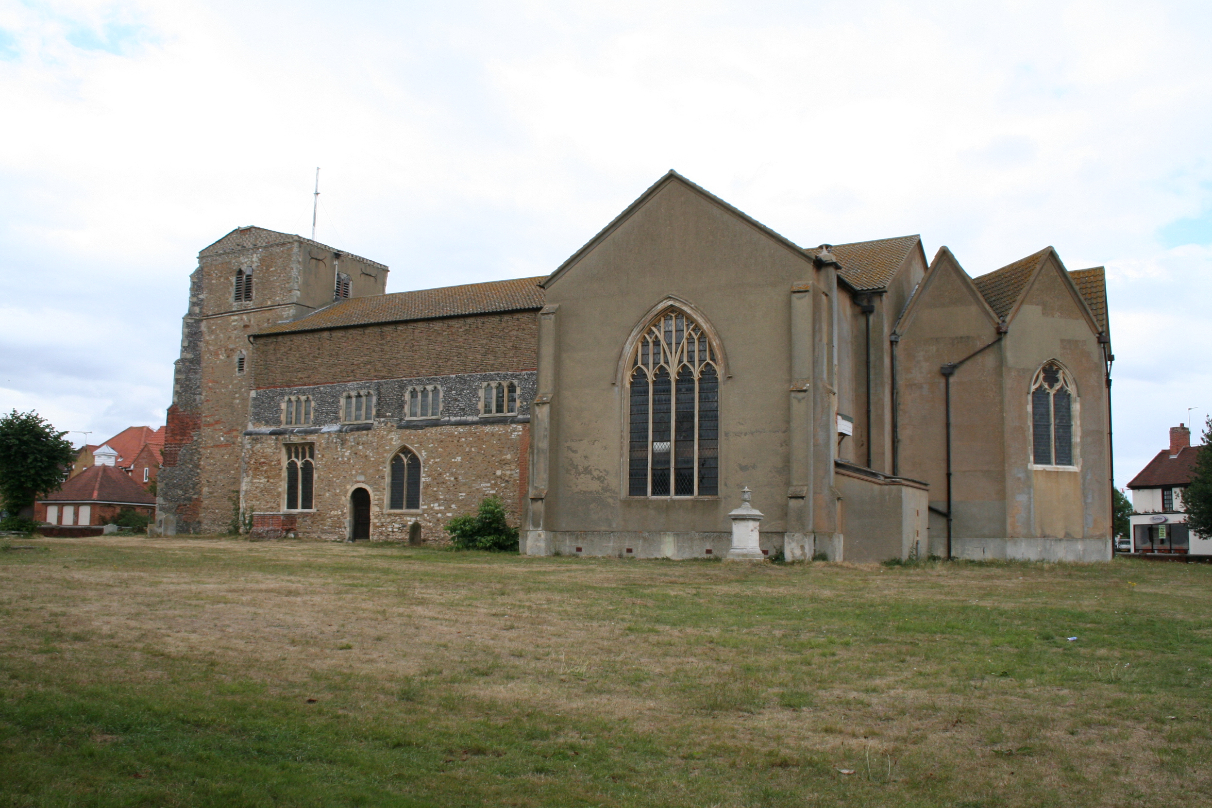 Essex: St. Leonard's Church, Southminster